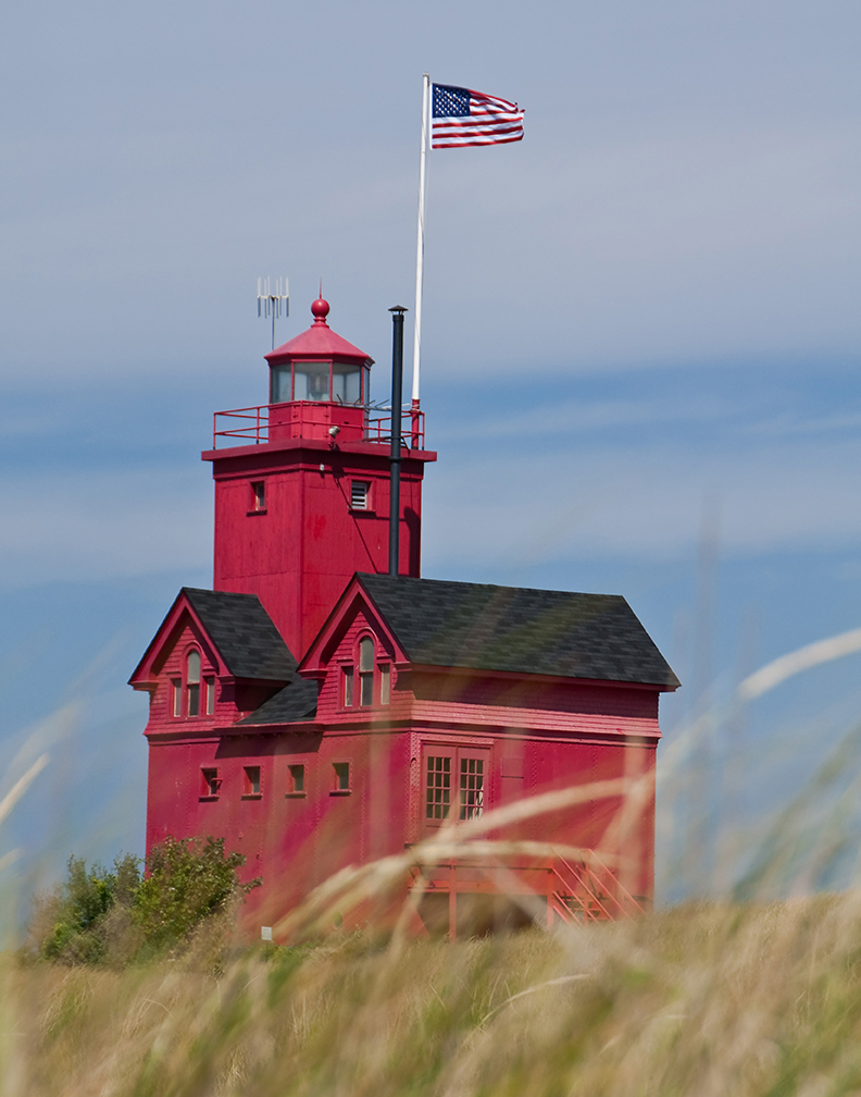 Big Red as it is known, with a unique perspective through the grass with Old Glory waving above.